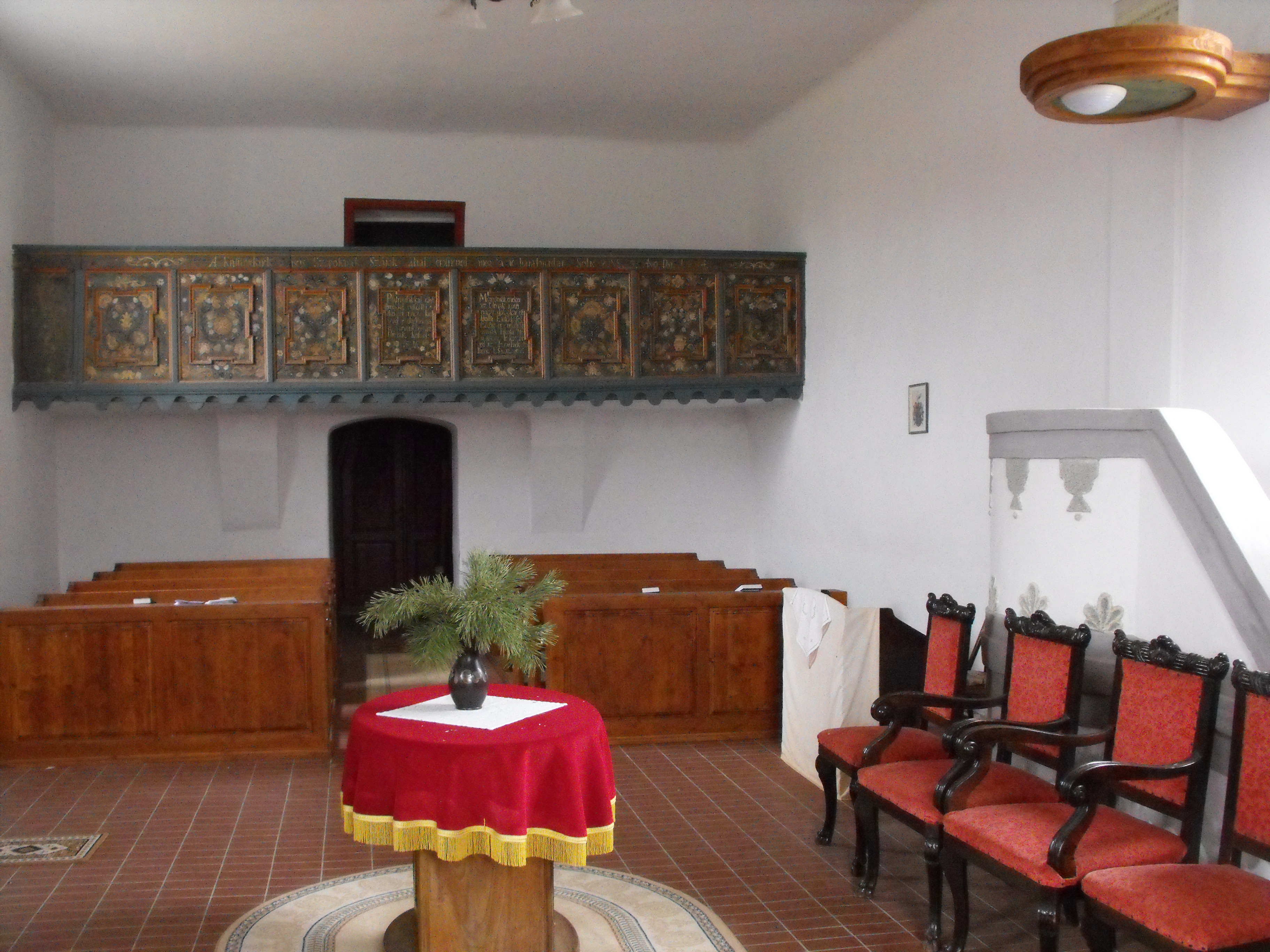 Interion of the protestant church in Pamleny, Cserehat, Hungary